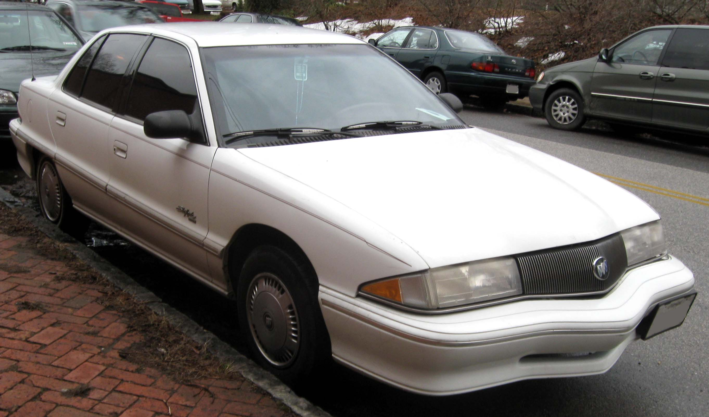 1992-1995 Buick Skylark photographed in Annapolis, Maryland, USA.